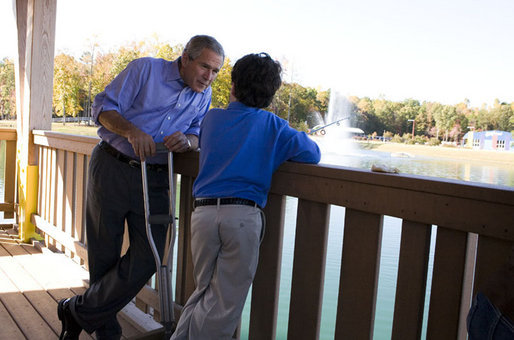 President George W. Bush shares a quiet moment with 10-year-old Hank Grissom Wednesday Oct. 18, 2006, at the Victory Junction Gang Camp in Randleman, N.C. The Charlotte, N.C. youngster, who has Spina Bifida, attends the camp, which was founded in 2004 by Kyle and Pattie Petty in honor of their son, Adam, to help enrich the lives of kids with chronic medical conditions or serious illnesses. White House photo by Paul Morse